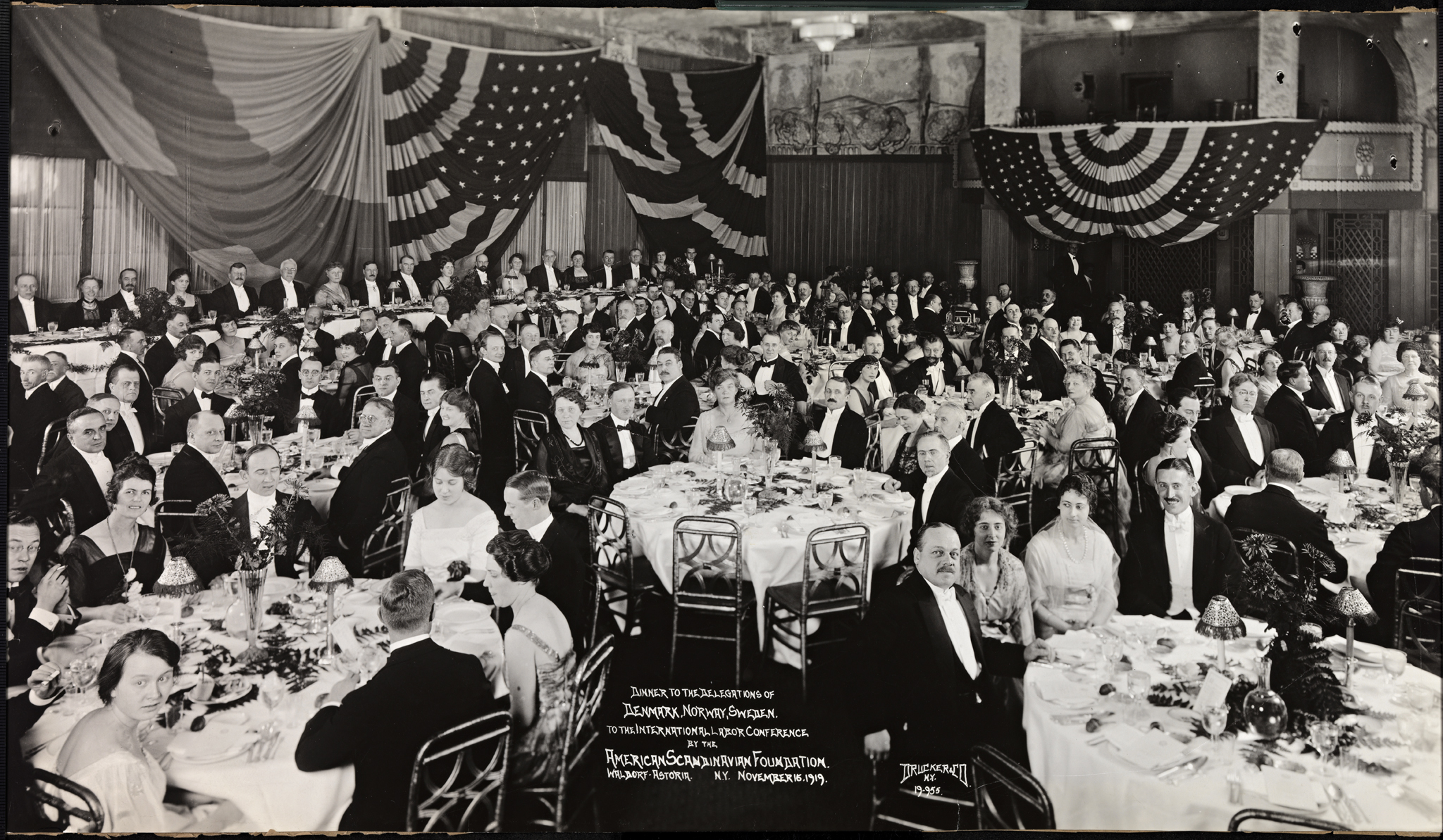 Tittel / Title: Dinner to the delegations of Denmark, Norway, Sweden to the International Labor Conference by the American Scandinavian Foundation Beskrivelse / Description: Middag for delegasjonene fra Danmark, Norge og Sverig til The International Labor Conference. Dato / Date: 16. november 1919 Fotograf / Photographer: Drucker & Co. (N.Y.) Sted / Place: New York, Waldorf Astoria Eier / Owner Institution: Nasjonalbiblioteket / National Library of Norway Lenke / Link: Bildesignatur / Image Number: blds_05754